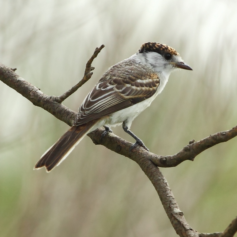 White-naped Xenopsaris (young) at Capivara - Santa Fe - Argentina